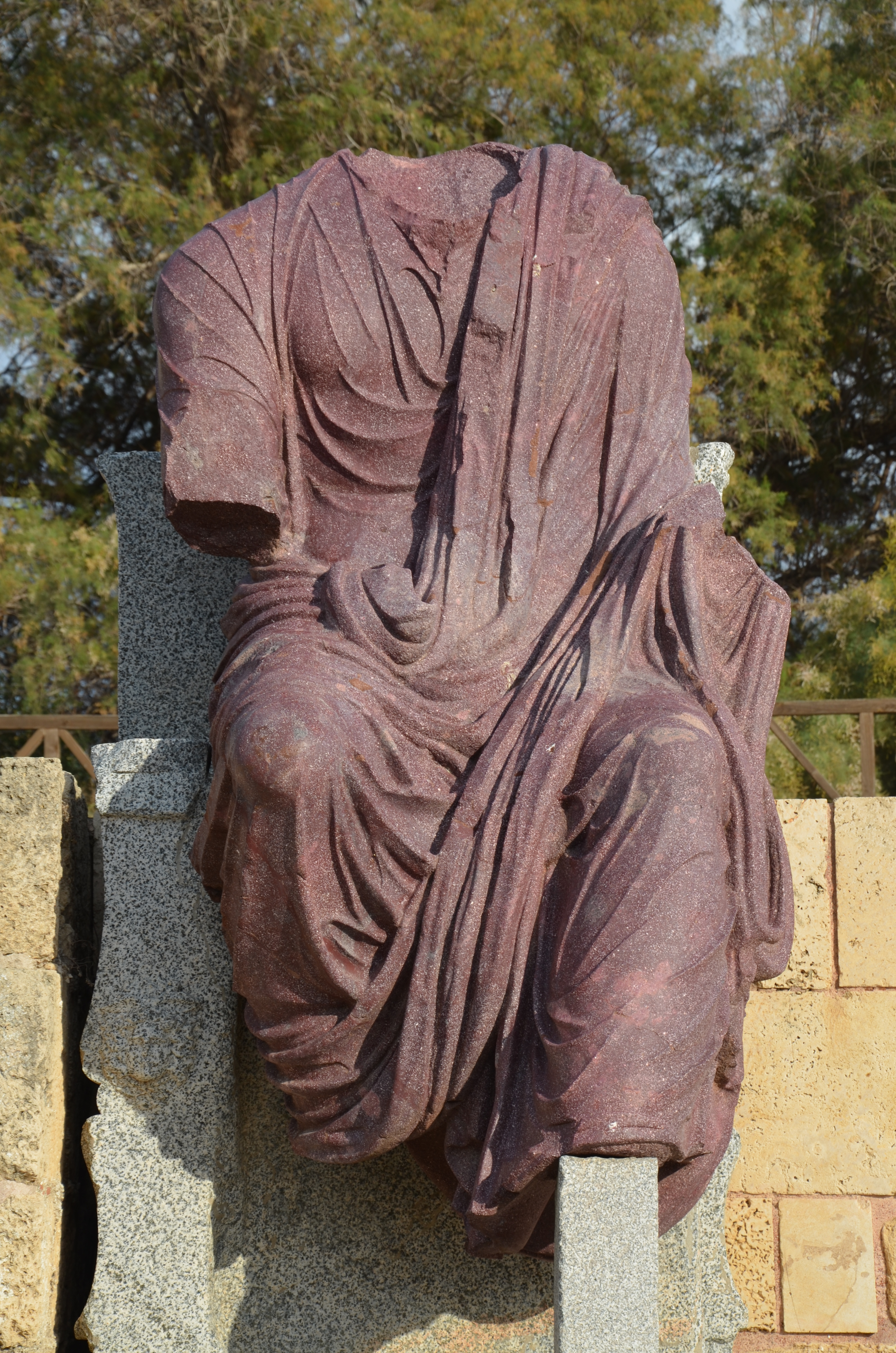 Porphyry statue of Hadrian, Caesarea